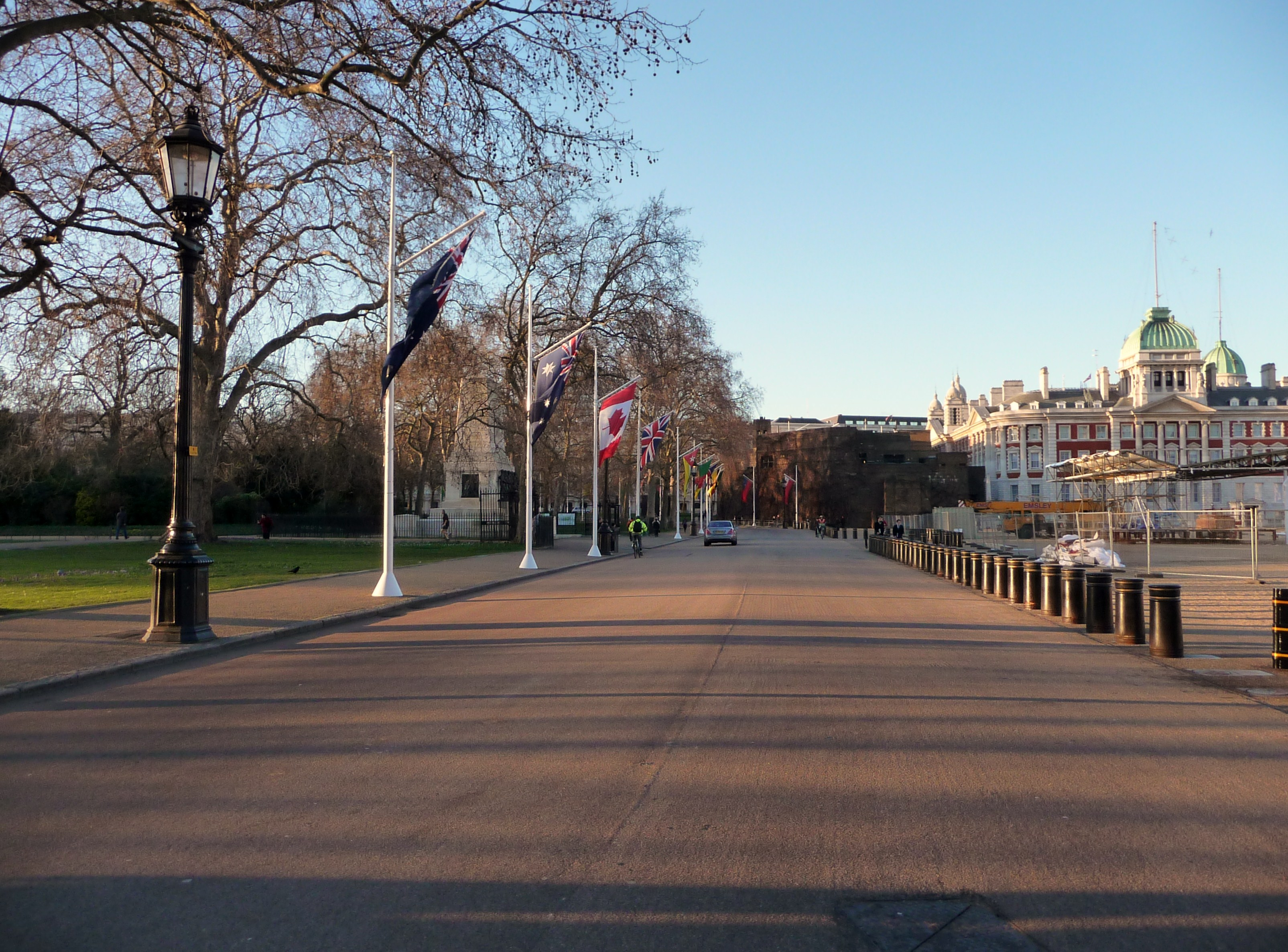 London : Westminster - Horse Guards Road Horse Guards Road is decorated with several flags of the Commonwealth including Australia, New Zealand and Canada.